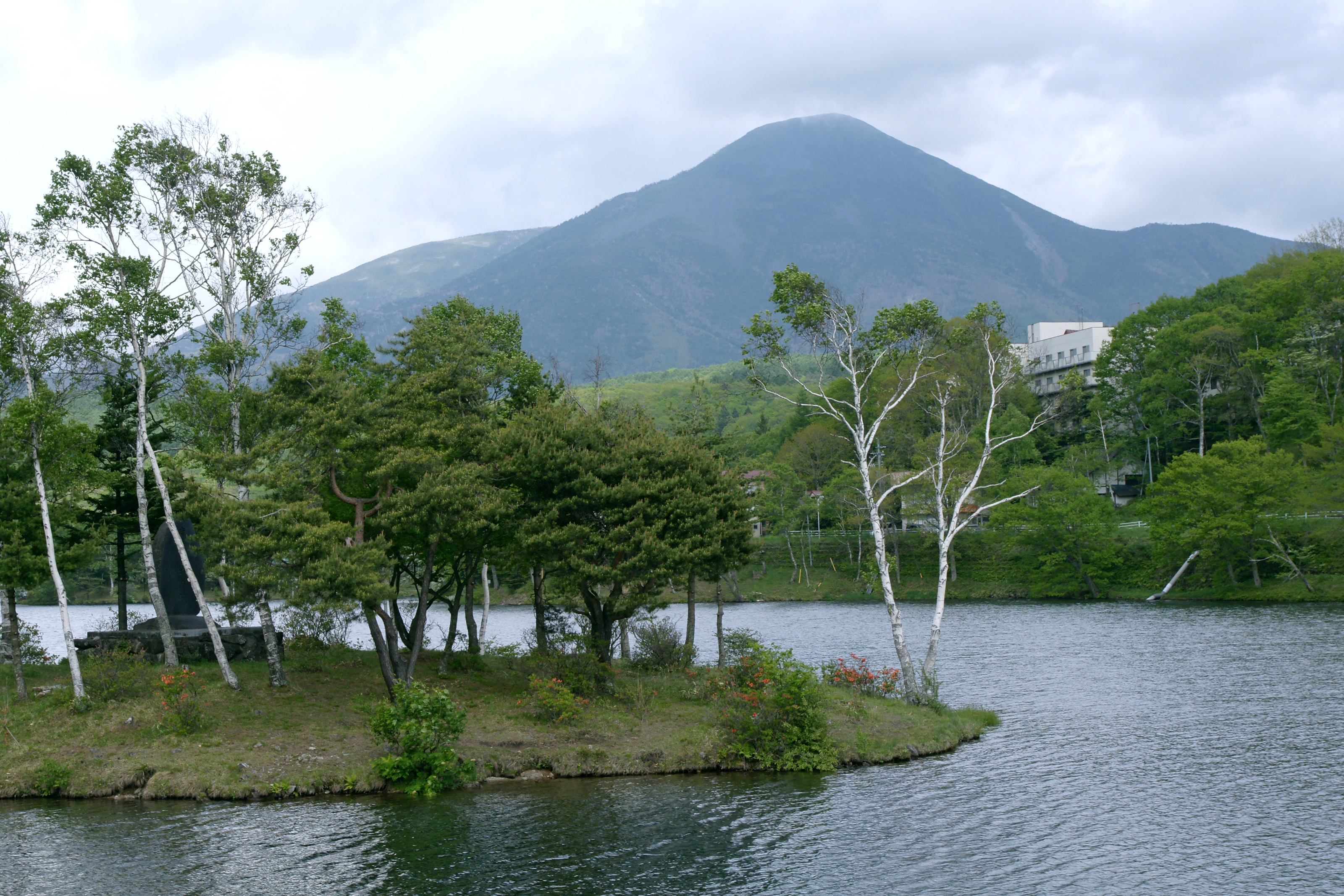 Lake Shirakaba, Chino and Tateshina, Nagano prefecture, Japan